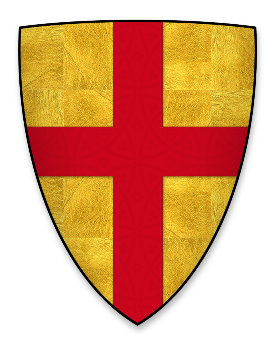 Coat of arms of Roger Bigod, Earl of Norfolk and Suffolk